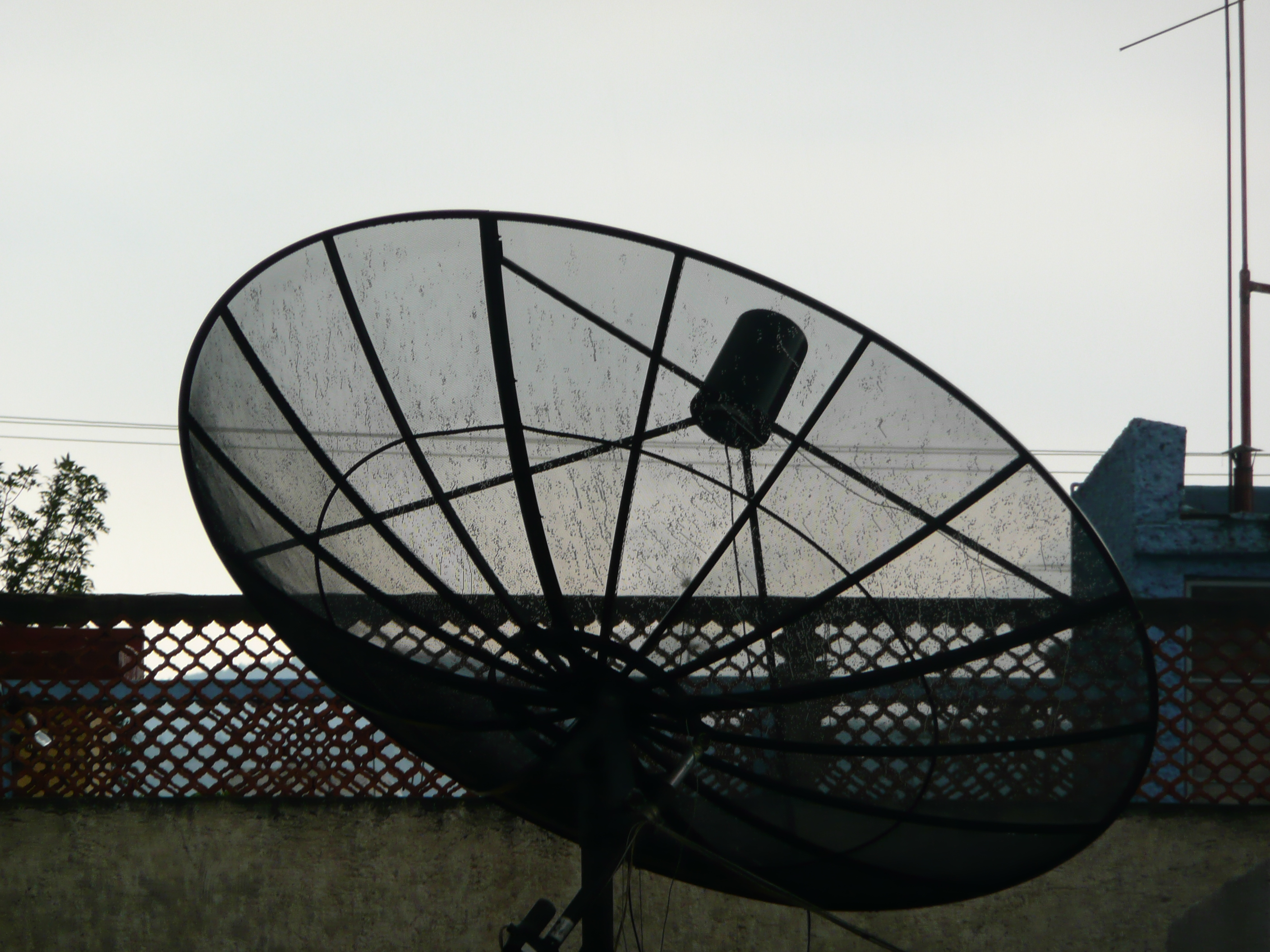 antena parabolica